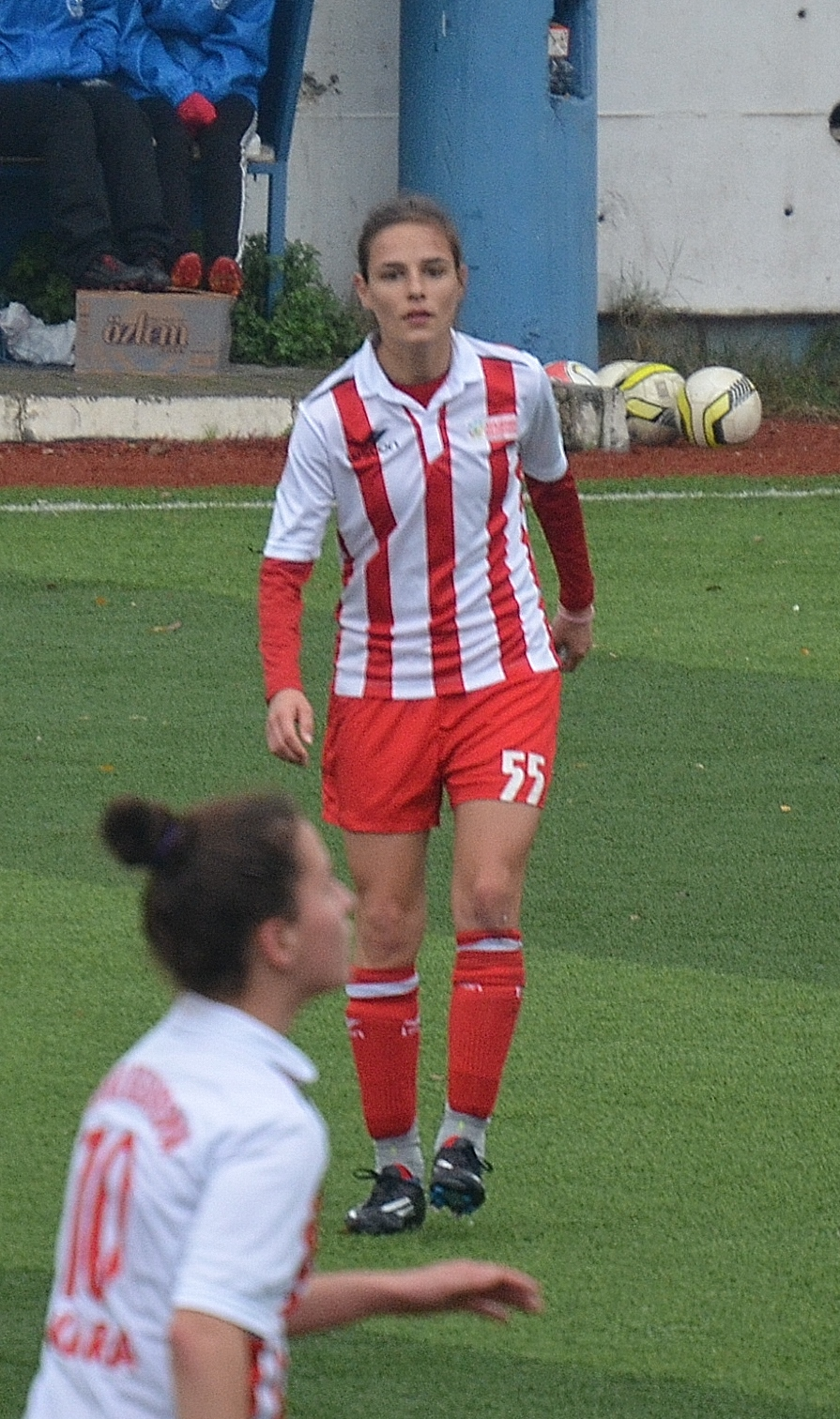 Hanife Demiryol for Ataşehir Belediyespor in the 2014-15 season